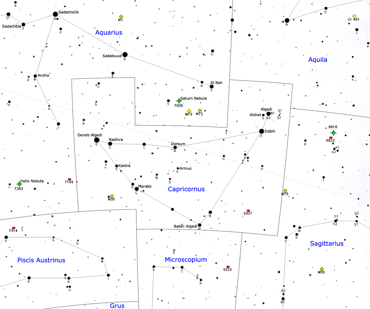 Map of Capricornus